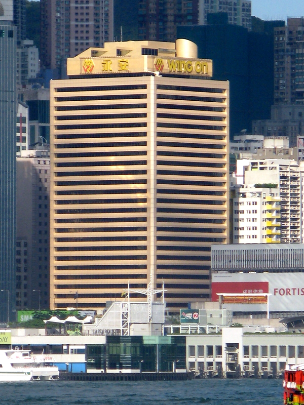 永安中心 Wing On Centre